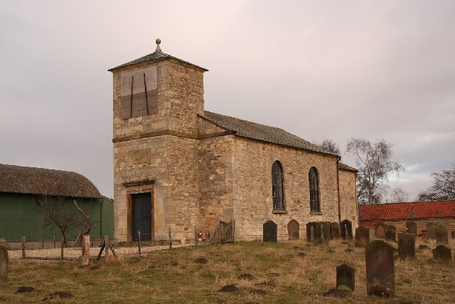 St.John the Baptist's church, Stainton-by-Langworth, Lincs. In the small hamlet of Stainton-by-Langworth, approached through a farmyard, the little Georgian church of 1796 incorporates a few pieces of medieval stonework.